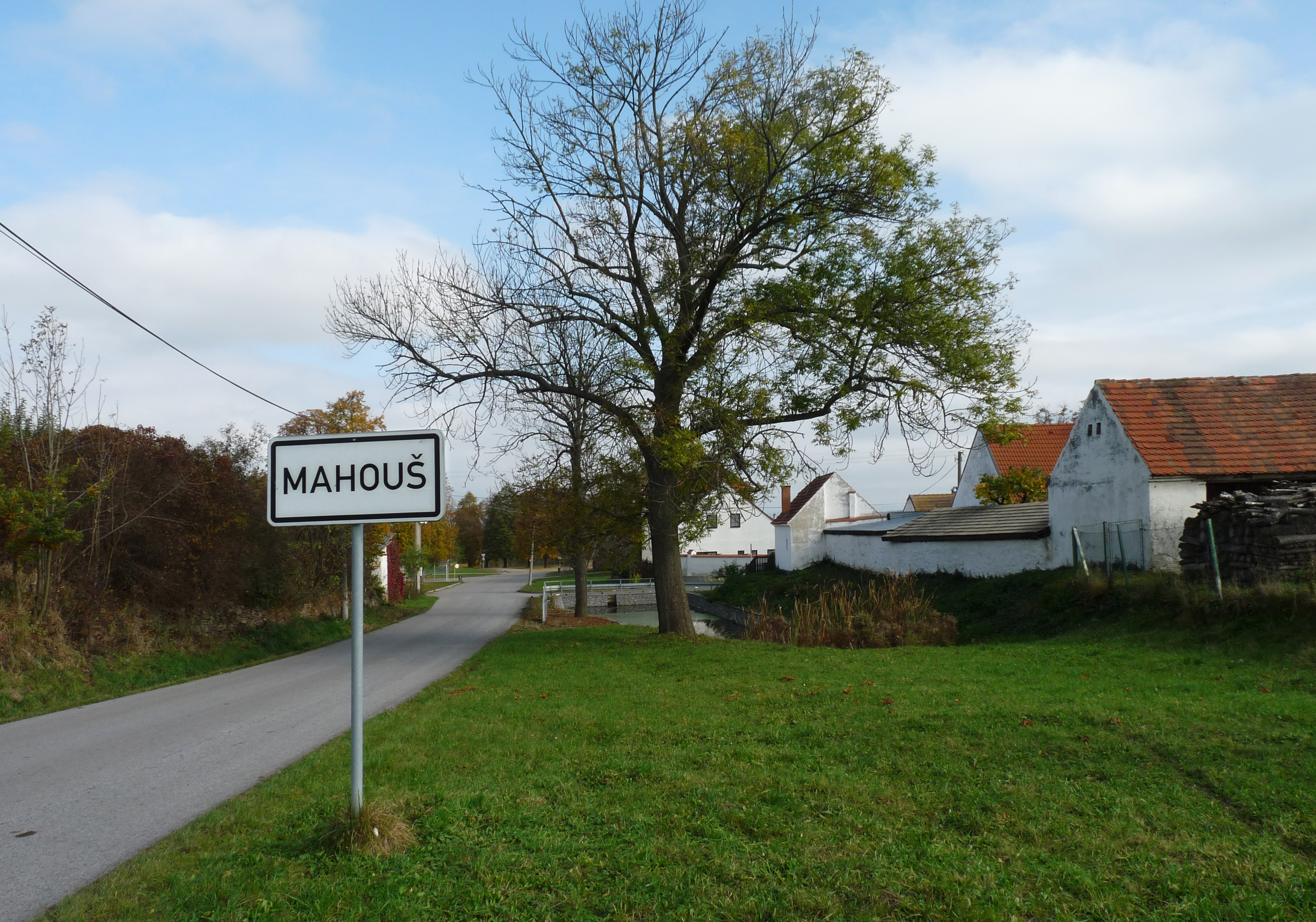 Municipal border sign of the village of Mahouš, Prachatice District, South Bohemian Region, Czech Republic.